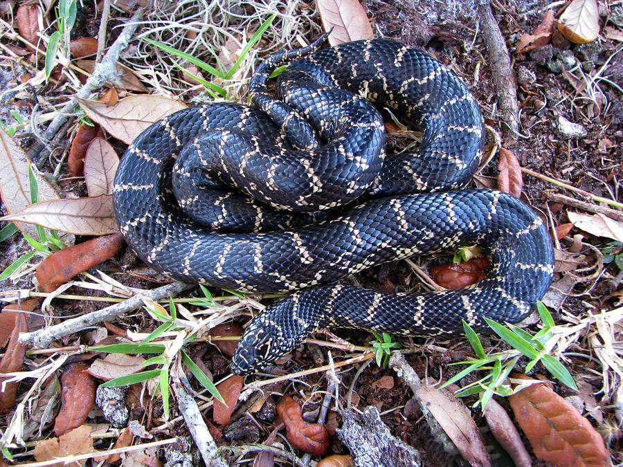 Lampropeltis getula floridana, Adult-South Florida